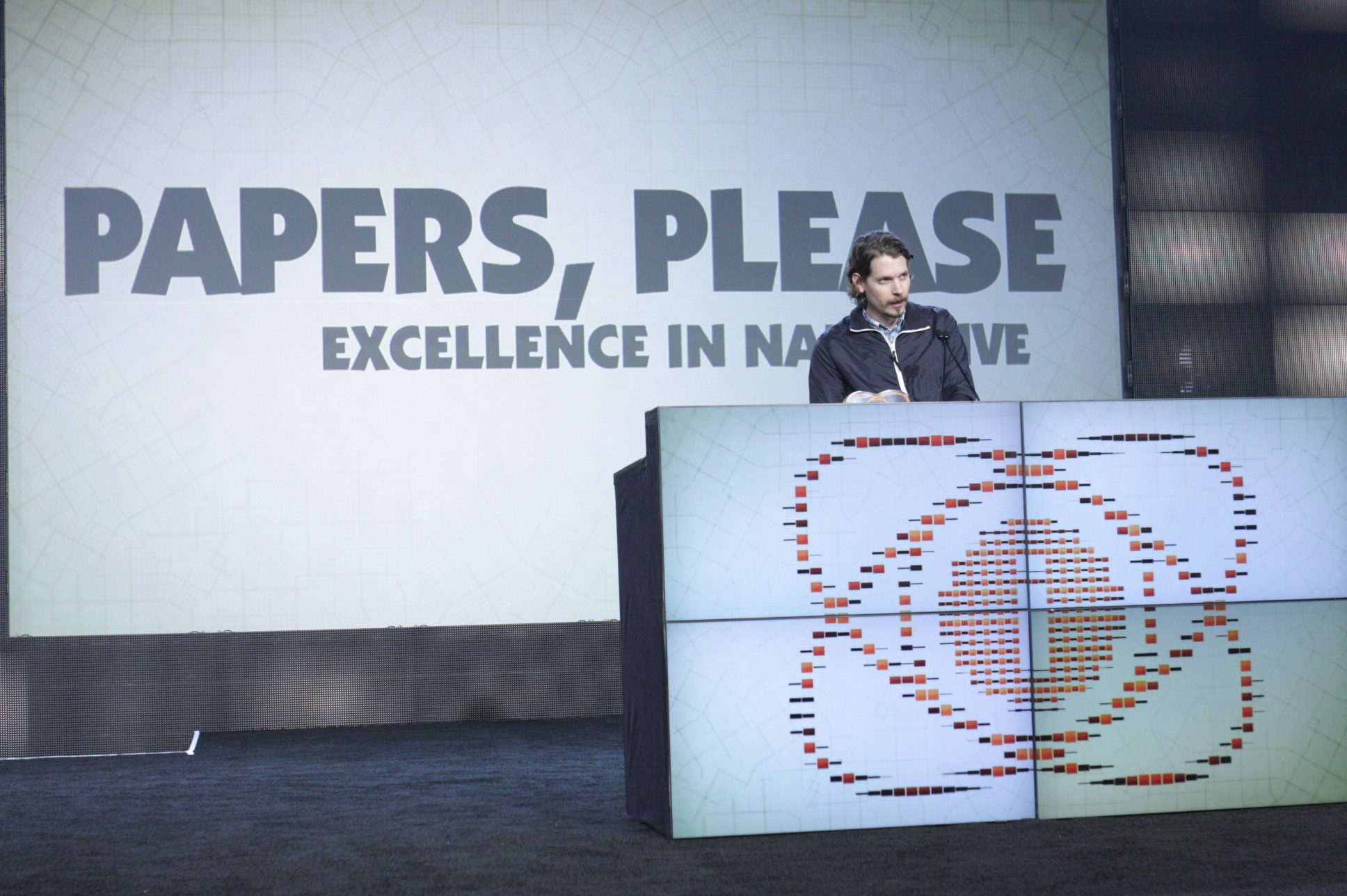 Lucas Pope accepting one of his awards at the 2014 Game Developer Conference's Independent Game Festival, March 19, 2014.